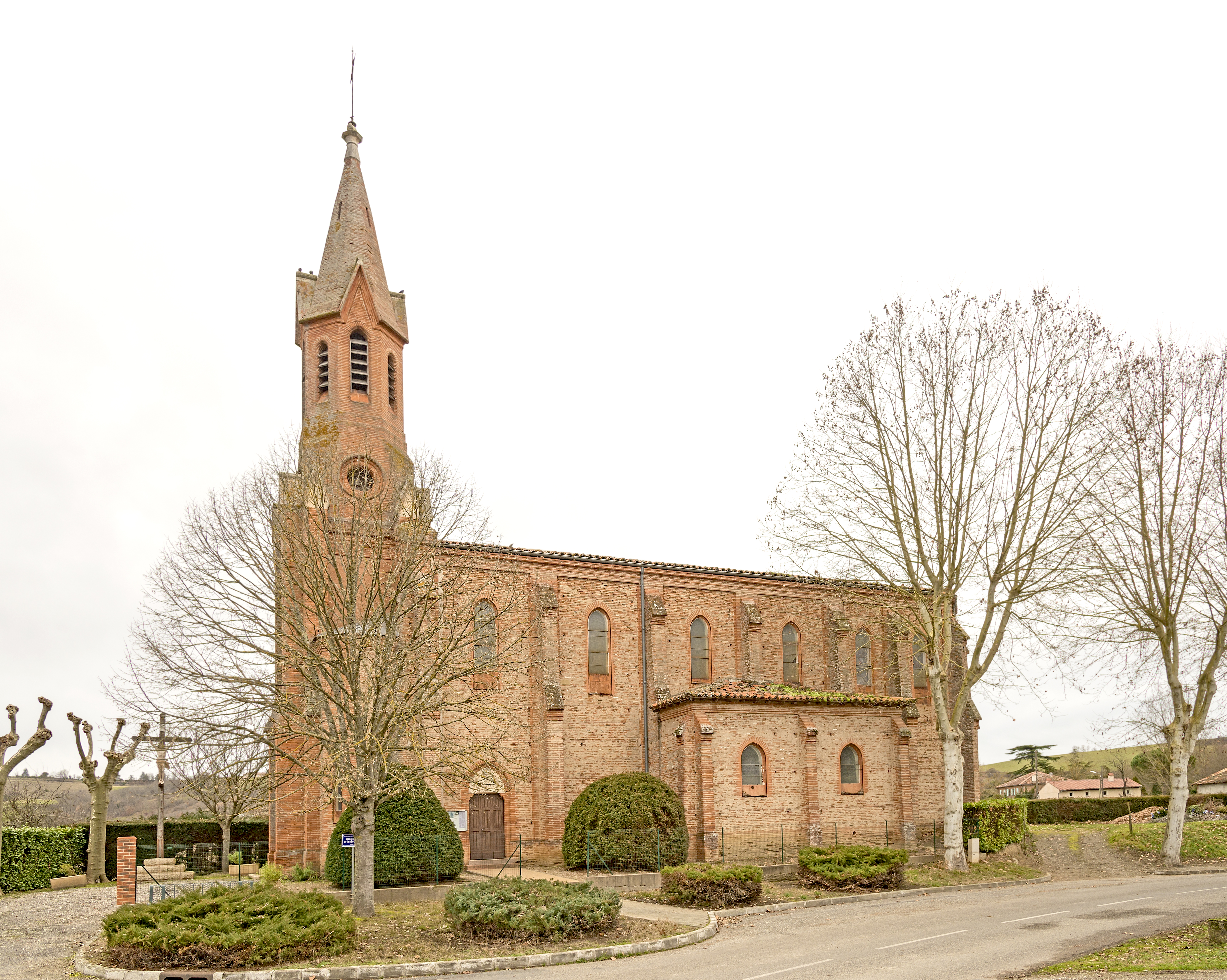 Mirepoix-sur-Tarn.The church Sainte-Juliette and Saint-Cyr.